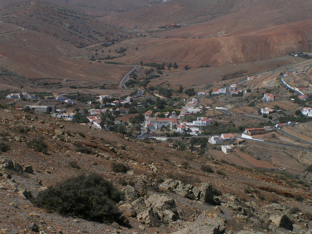 the town of Betancuria (Fuerteventura, Spain) from Morro Veloso